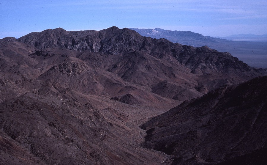 View of north end of Soda Mountains, San Bernardino County, California Avawatz Mountains in the distance.